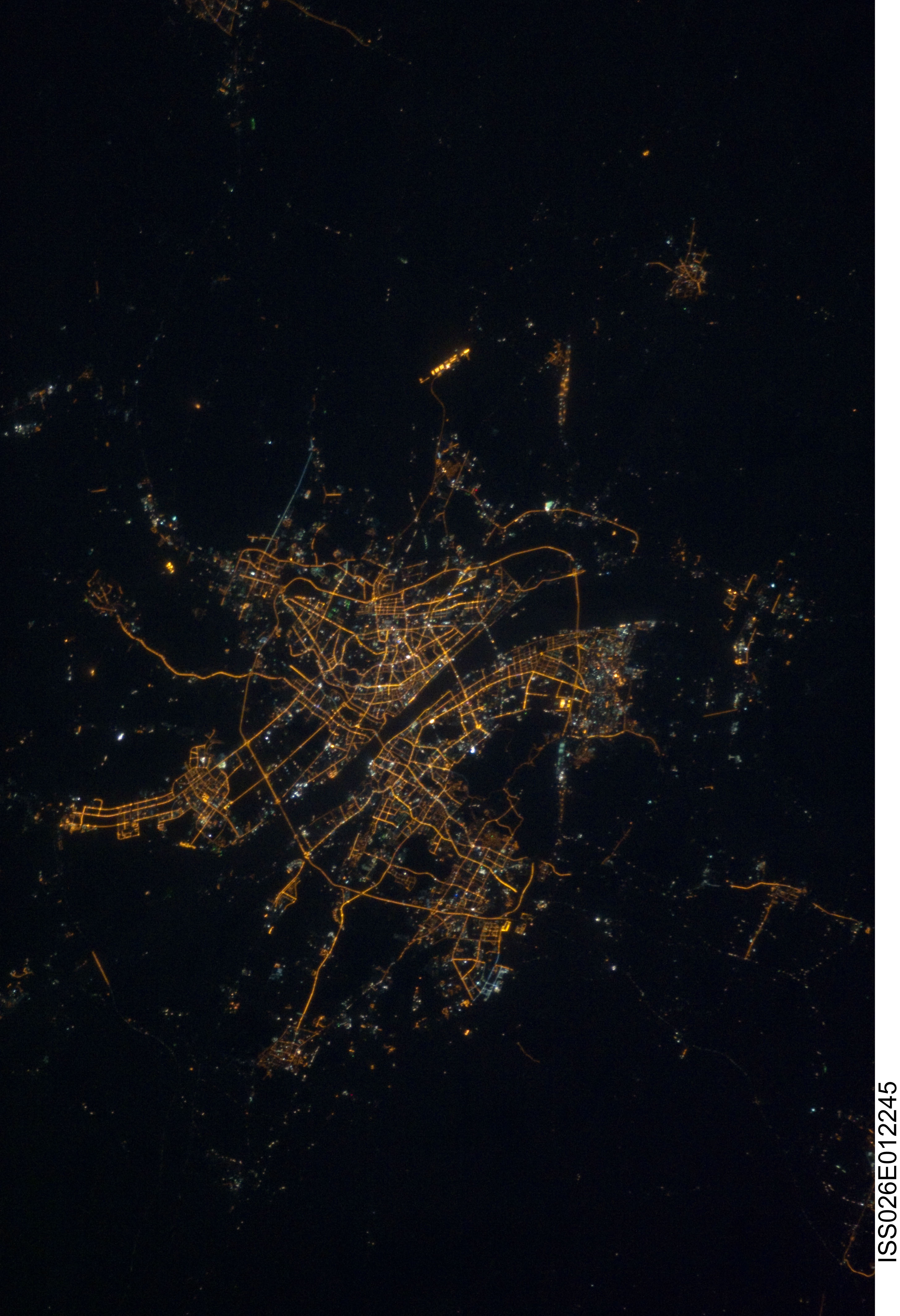 Wuhan at night, photographed by astronauts on International Space Station.